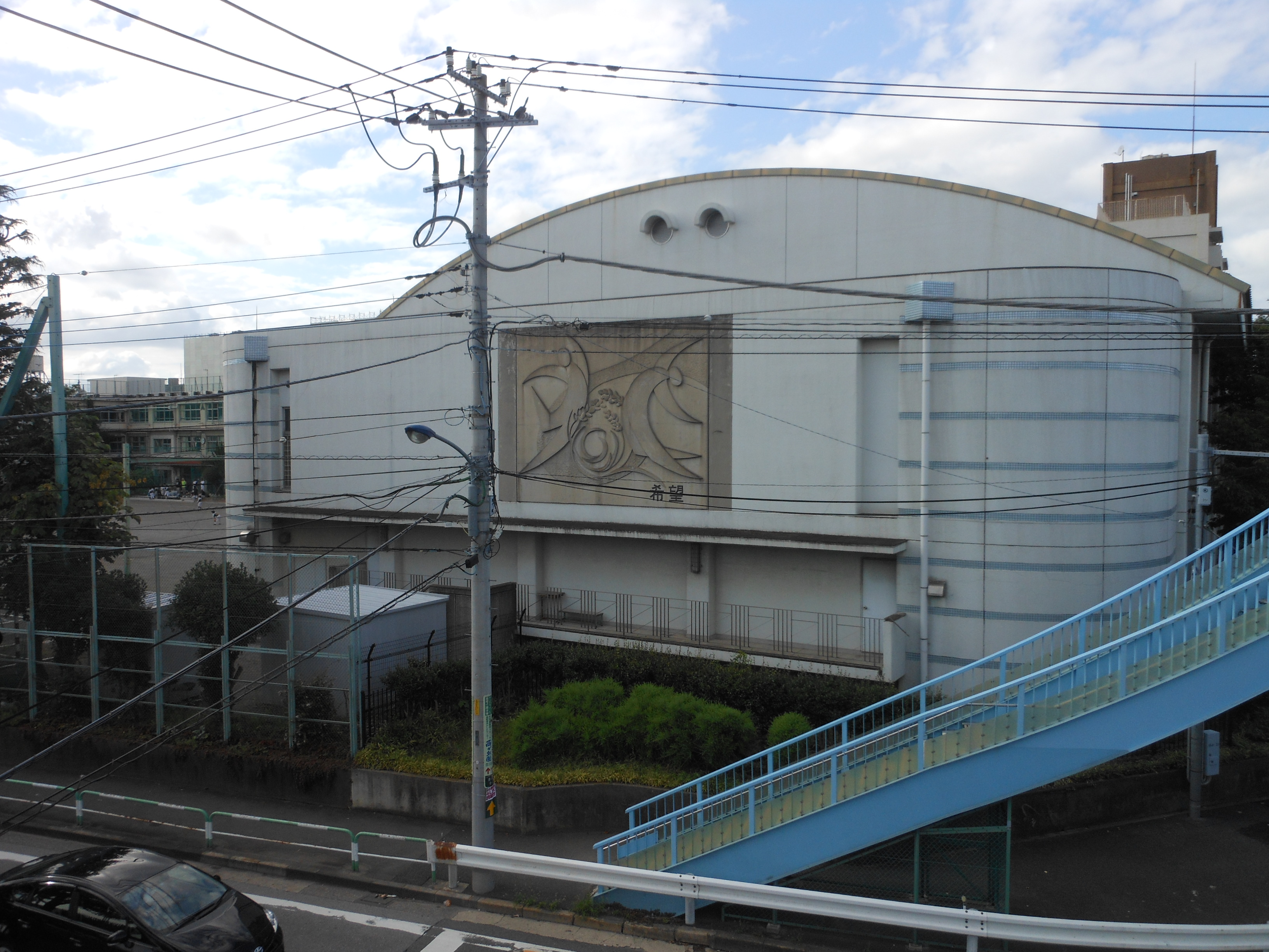 This is the Kita city Inatsuke junior high school's gym in Akabanenishi, Kita, Tokyo, Japan.